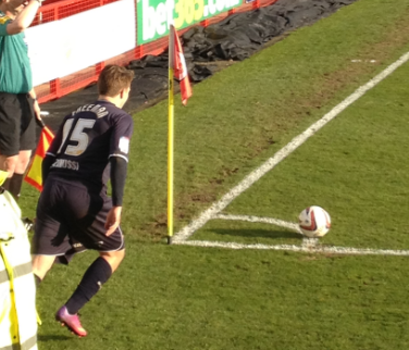 Luke Freeman taking a corner kick for Stevenage away at Crawley Town.